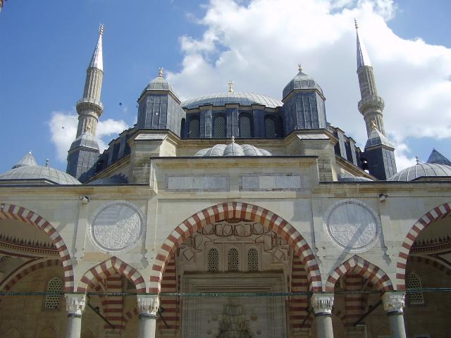 Salimiye Masjid's from its courtyard.